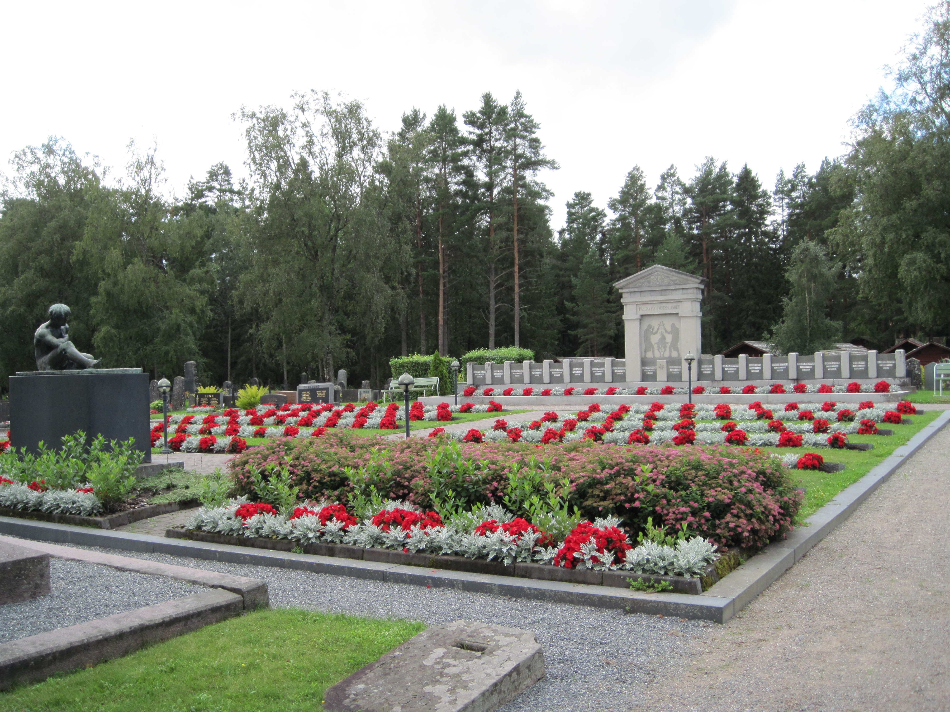 Military cemetary at Närpiö church in Närpiö , Finland